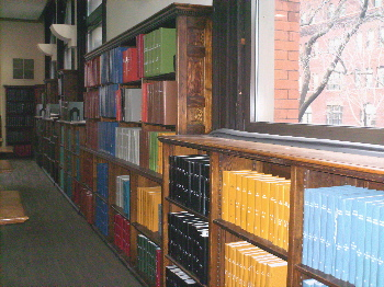 bound periodicals and shelves in the Pratt Institute library, Brooklyn NY